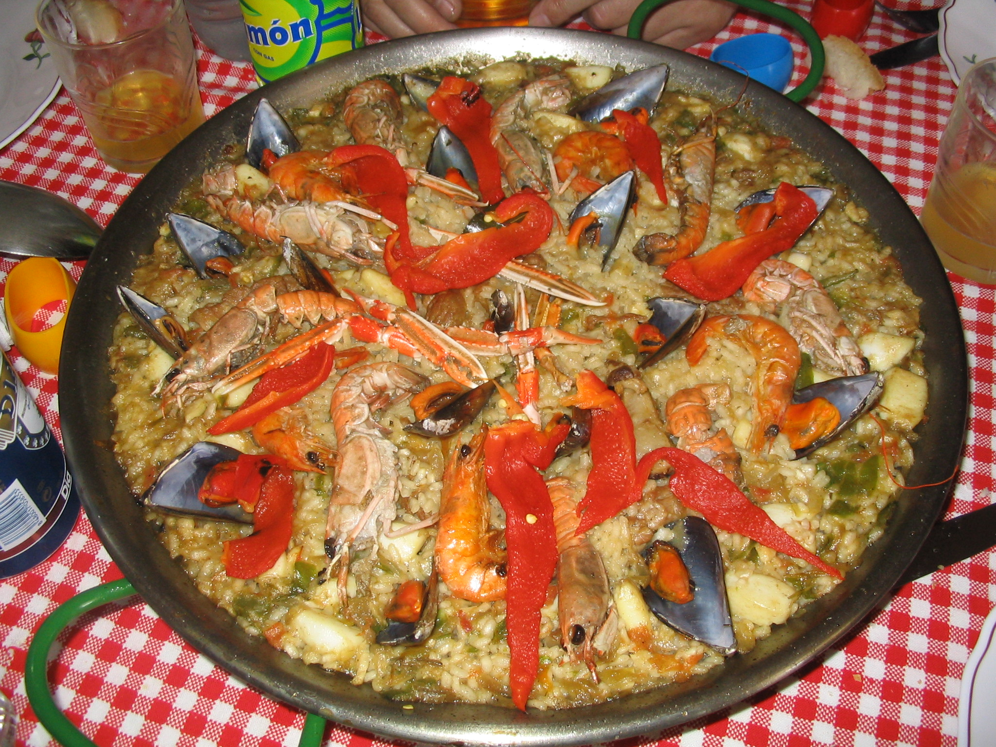 Paella